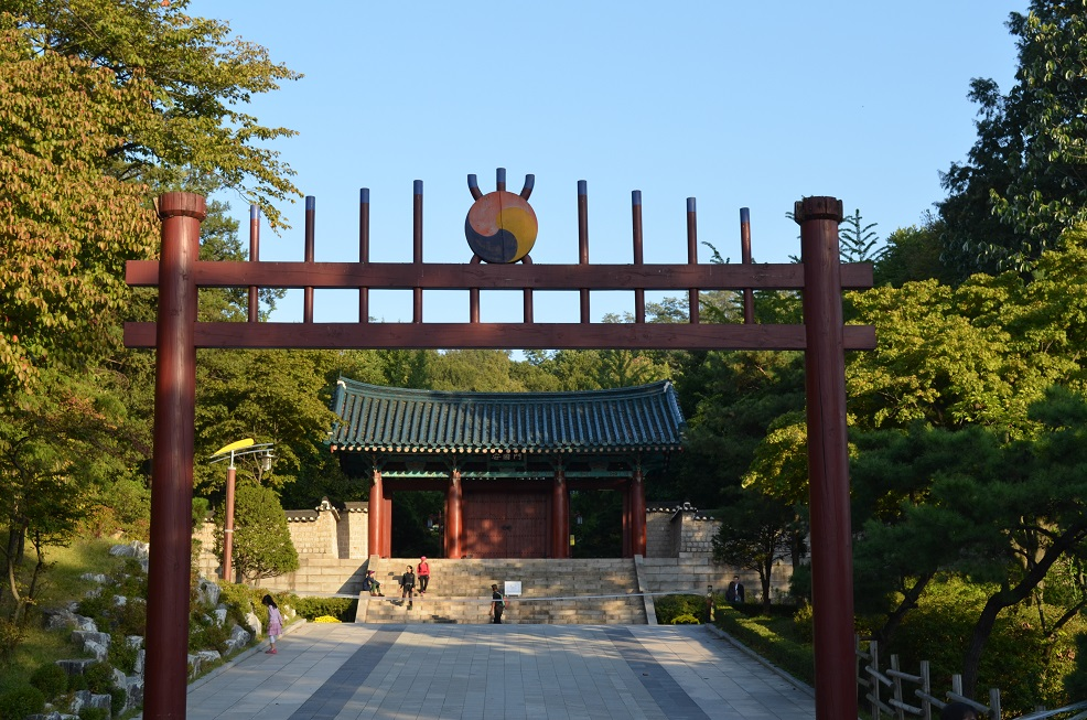 Anguksa shrine entrance in Nakseongdae Park, Seoul, South Korea. The shrine is commemorative of general Gang Gam-chan (948-1031).